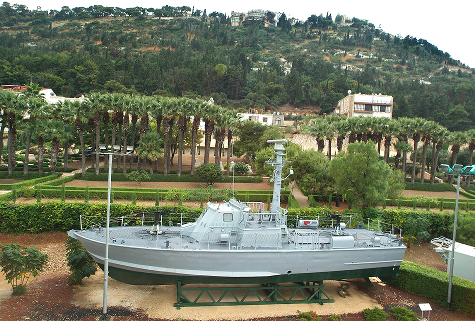 'Dabur' patrol boat, Israel Defense Forces